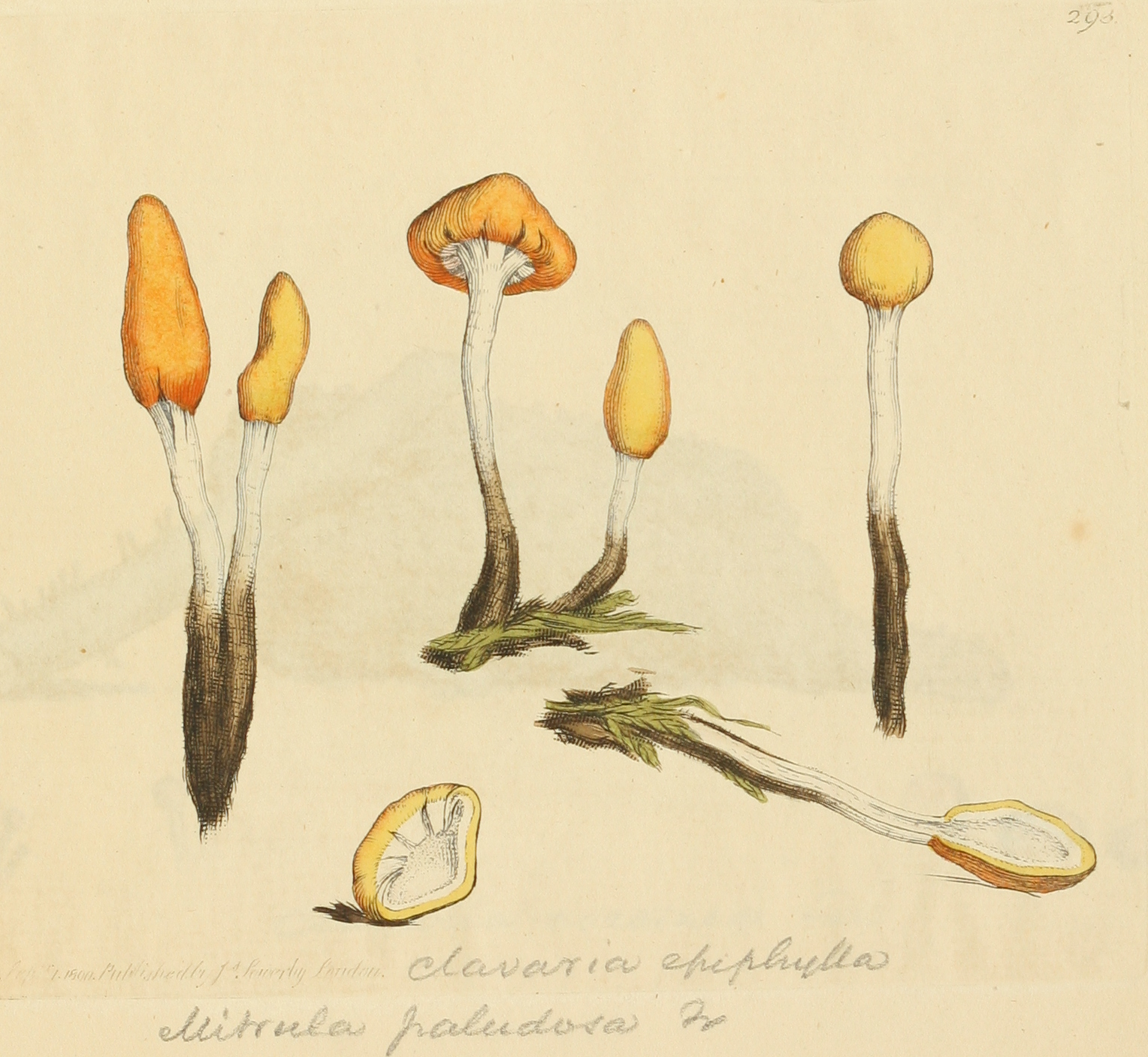 This is a plate from James Sowerby's Coloured Figures of English Fungi or Mushrooms.